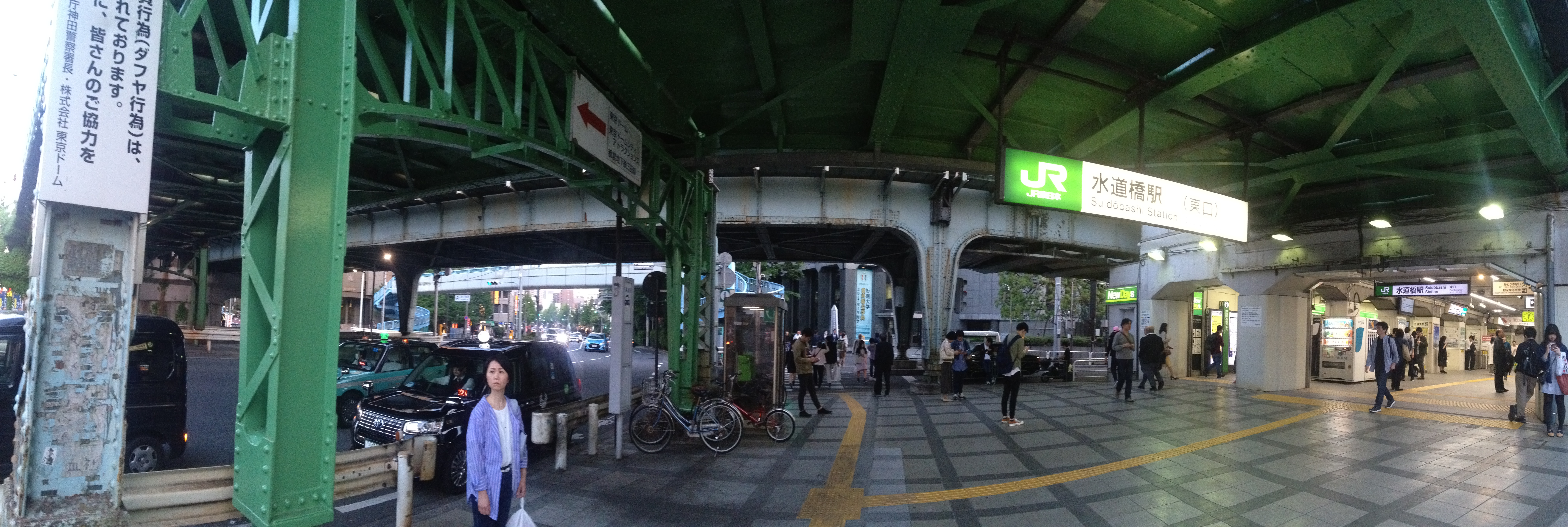 JR Suidōbashi Station east exit (JR水道橋駅の東口)